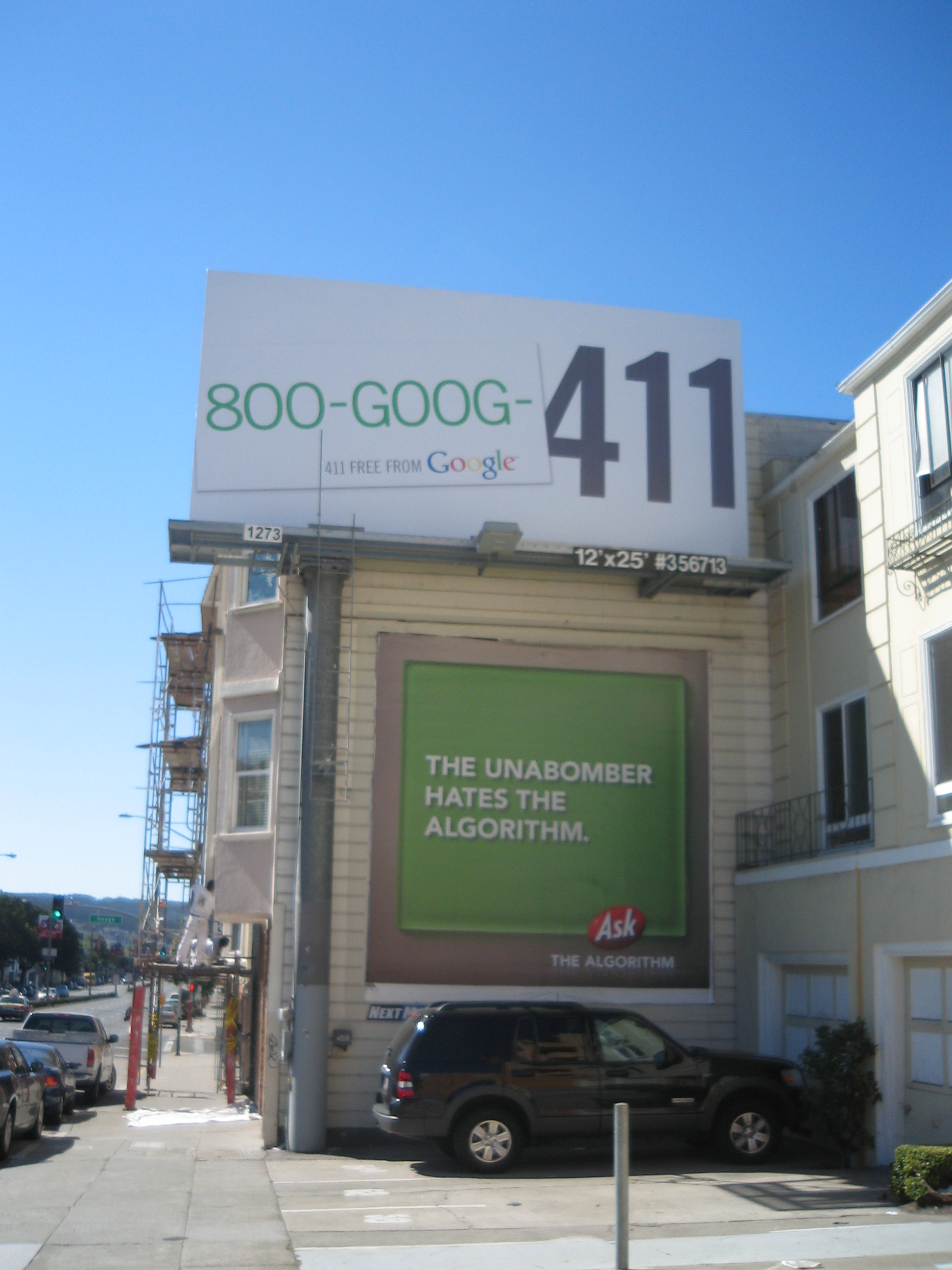 Photograph of a billboard promoting GOOG-411 on Lombard Street in San Francisco. There is also a billboard just beneath, possibly using guerilla marketing.